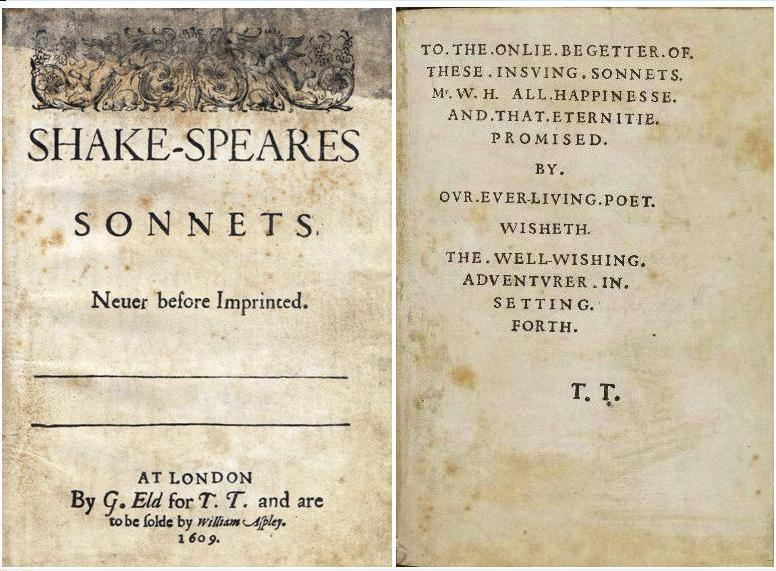 This is a composite image of the title page and dedication page of Shakespeare's Sonnets (1609)